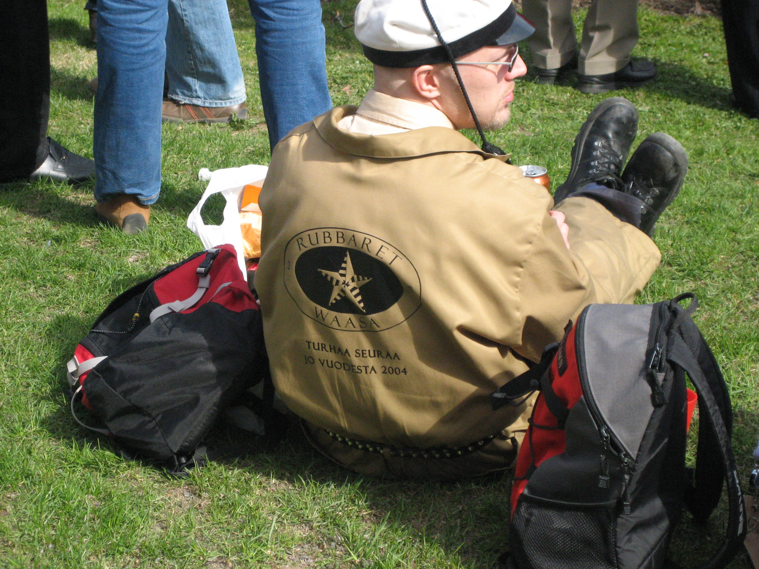 A Finnish engineering student from University of Vaasa